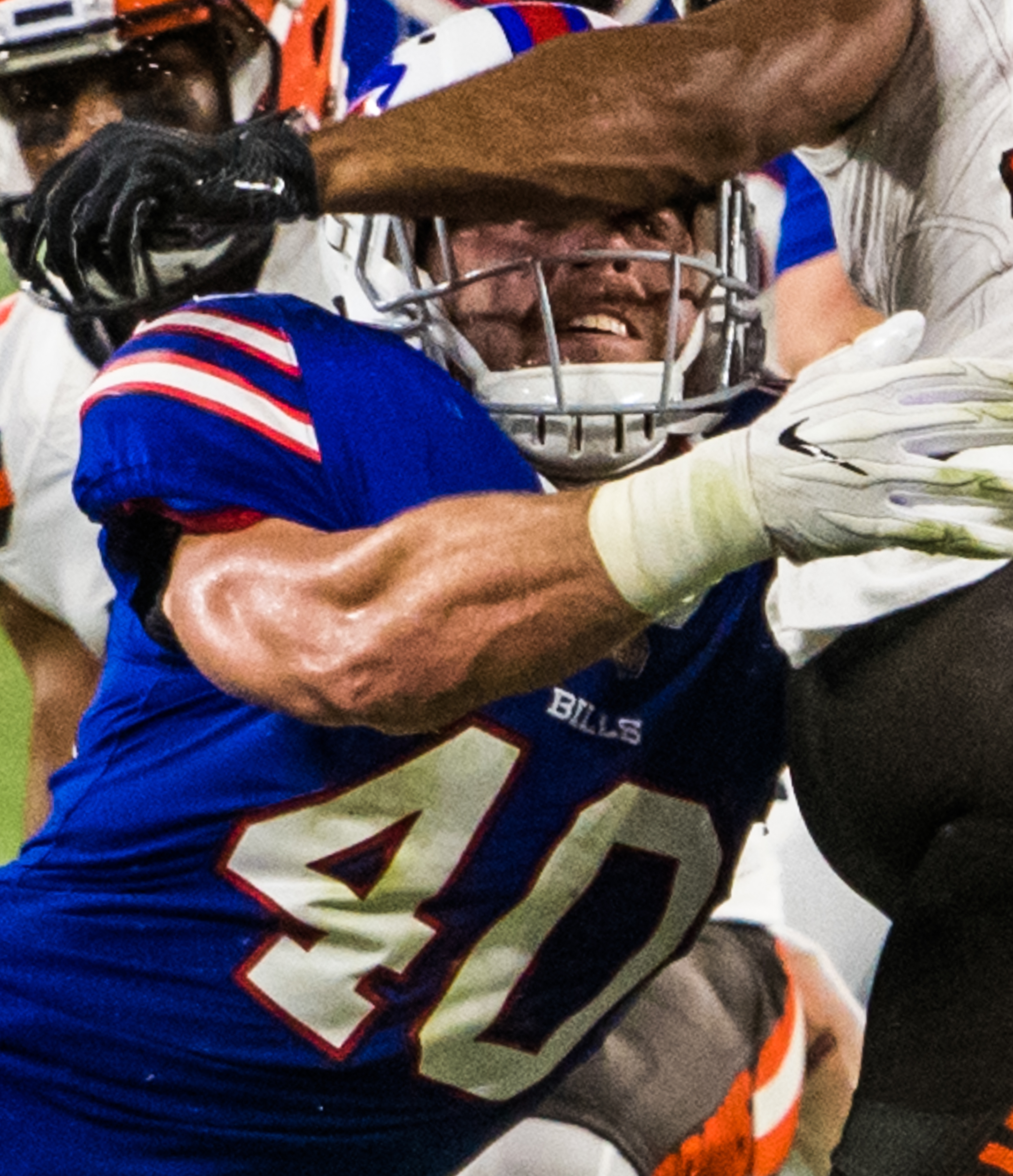 C.J. Board